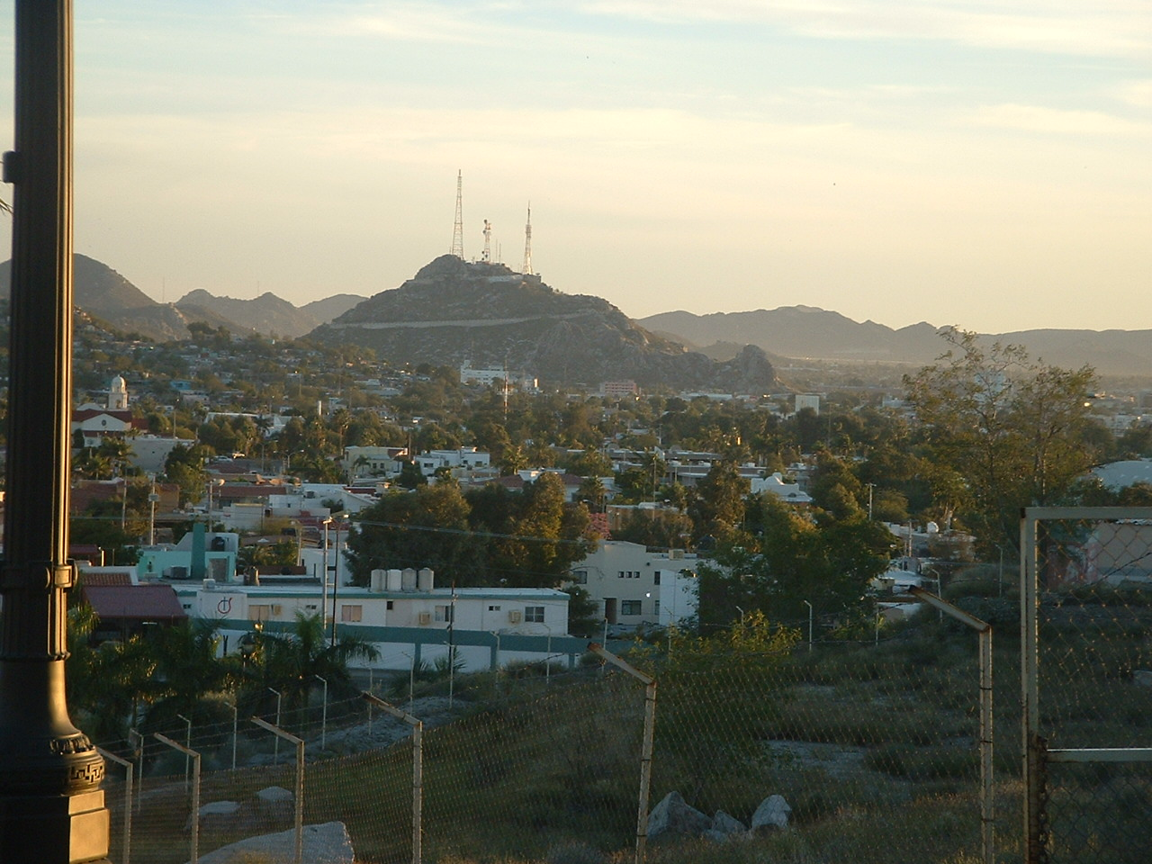 A view of Hermosillo, Sonora, Mexico from the entrance of the "La Jolla" housing area.